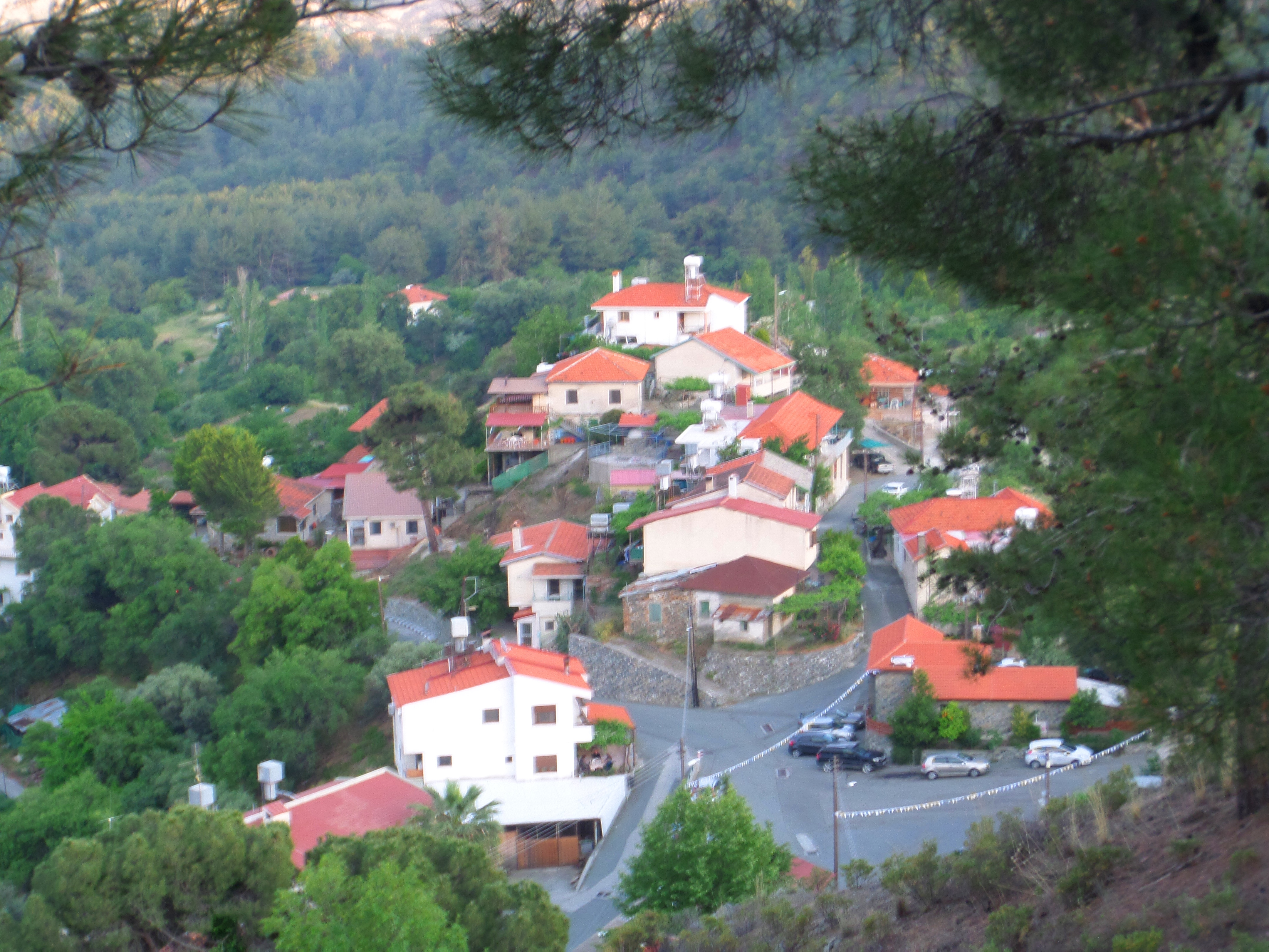 View of Moniatis.